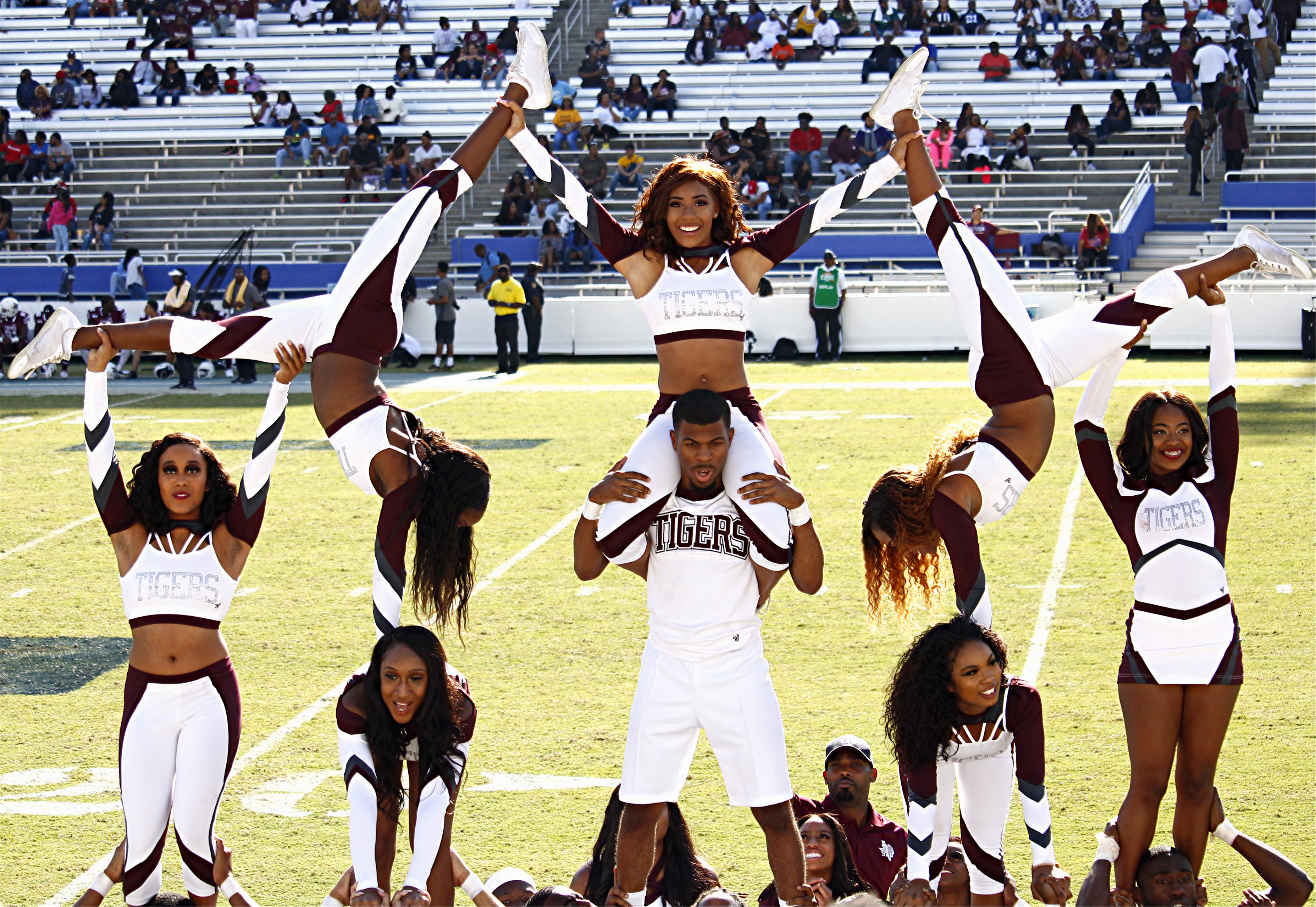 State Fair Showdown 2019 Southern University (SU) Human Jukebox feat. Fabulous Dancing Dolls vs. Texas Southern University (TXSU) Cotton Bowl Stadium Dallas, TX 10/19/19 HBCU Band Warning: Harsh Lighting** Texas Southern University Cheerleaders